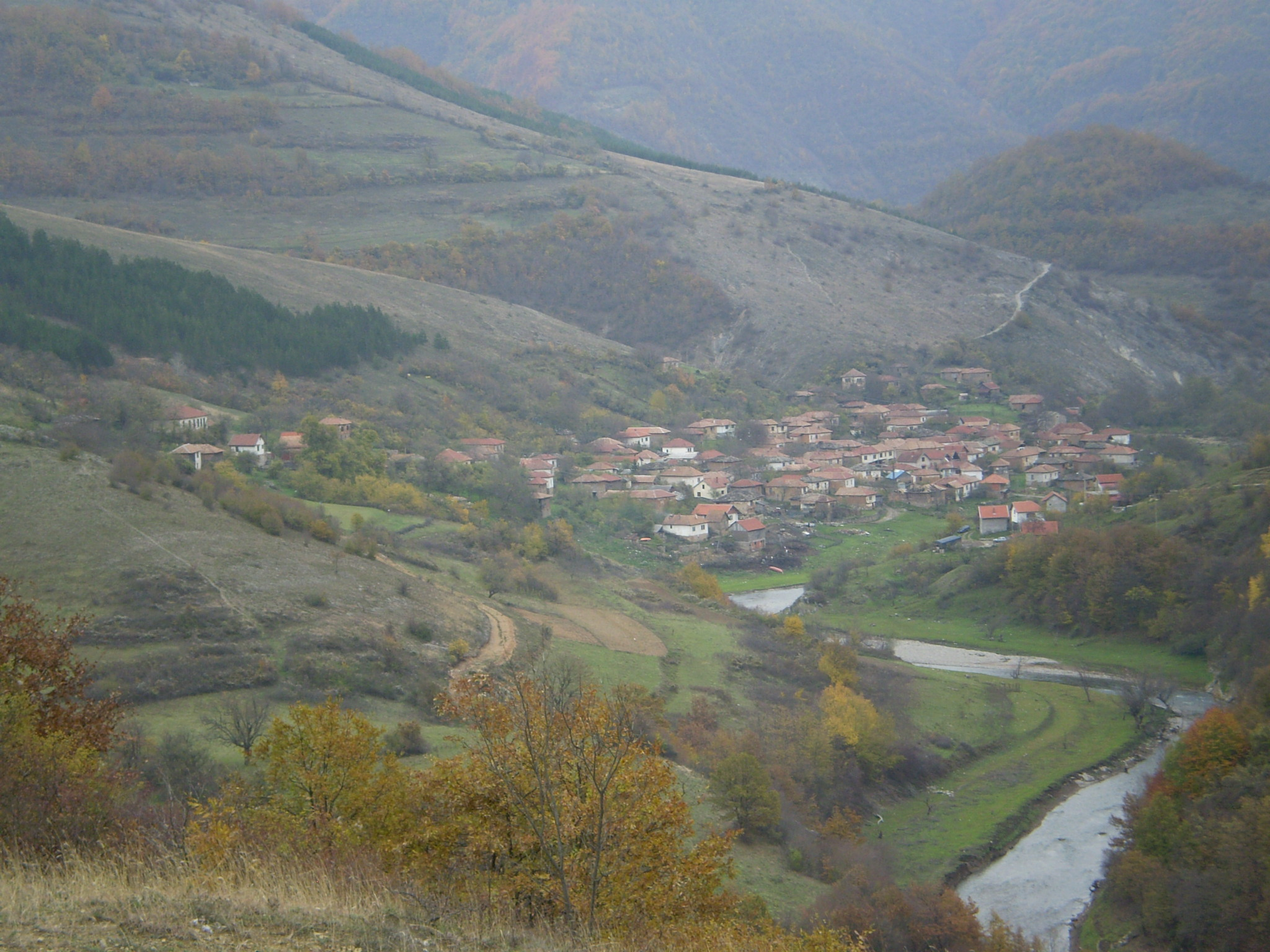 Panoramic view of Pakleštica near Pirot, Serbia